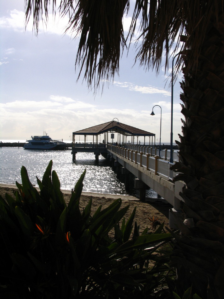 Redcliffe Jetty on Moreton Bay, taken from land between a palm (species unknown) and a Bird-of-Paradise (Strelitziae reginae), Queensland, Australia.